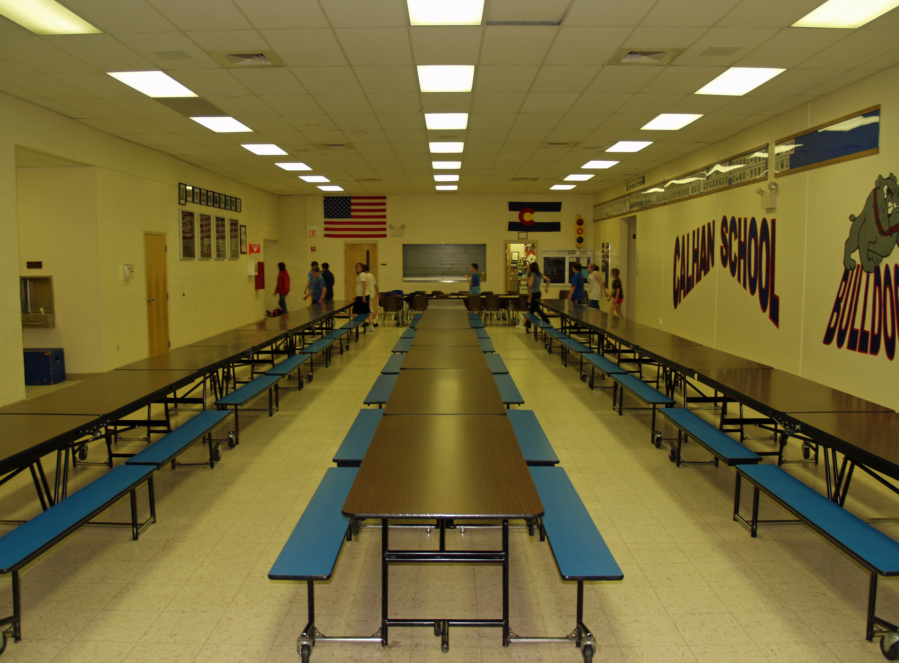 Calhan, Colorado high school cafeteria.